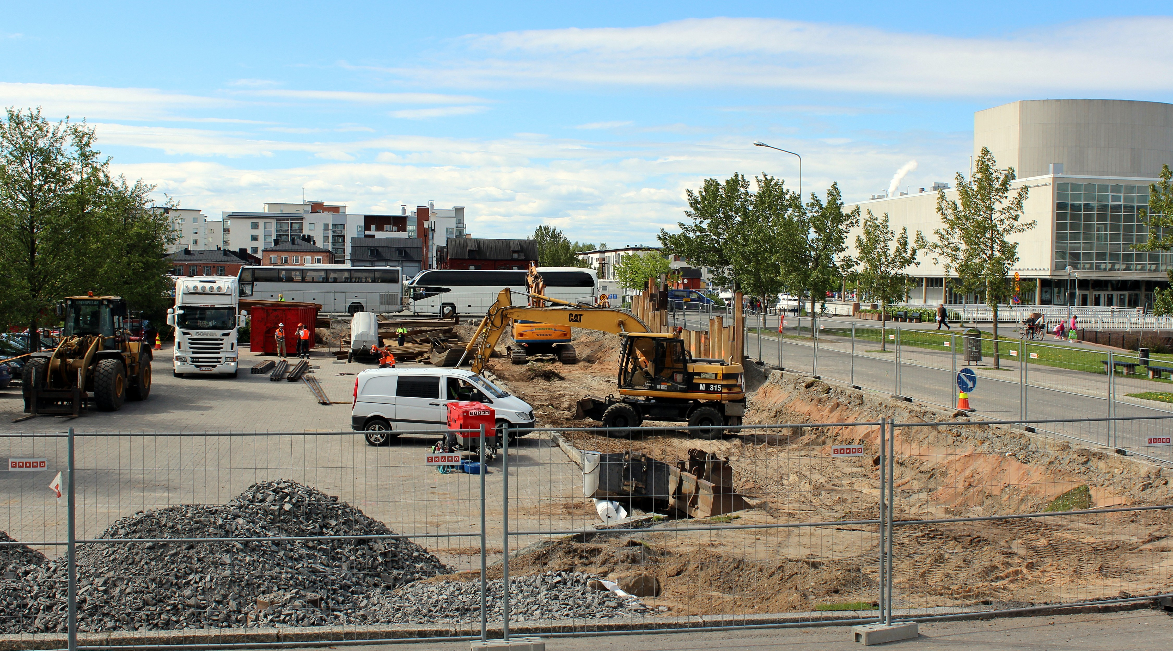 Construction of the underground car park in Oulu has been started near the Oulu market place. When completed the car park will have 900 available spaces for cars.